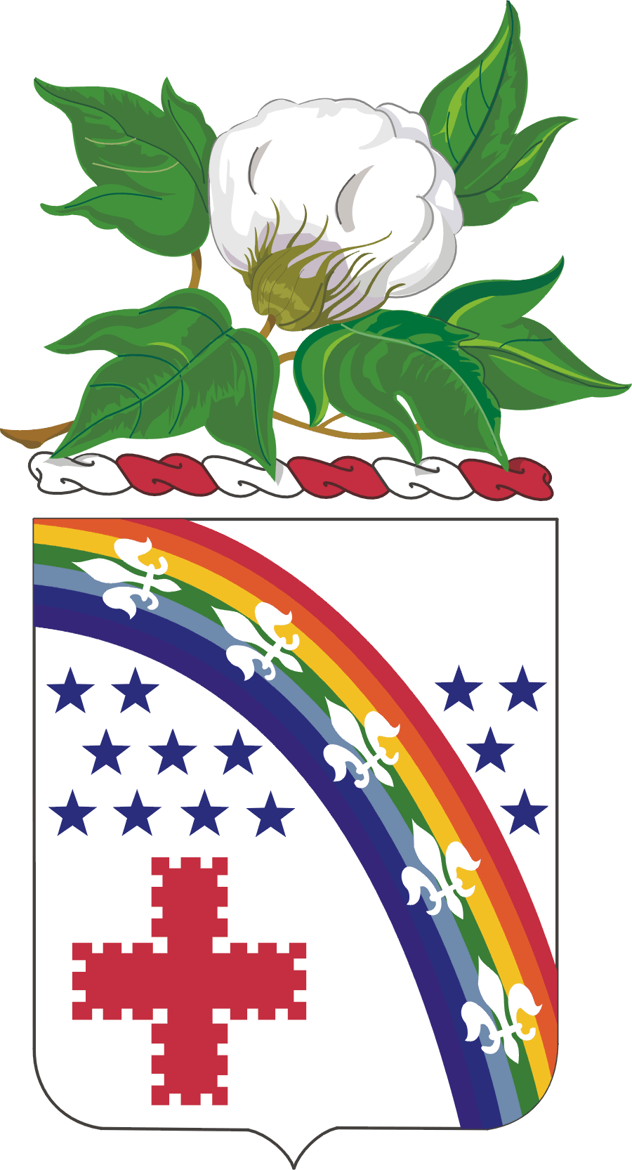 167th Infantry Regiment Coat Of Arms